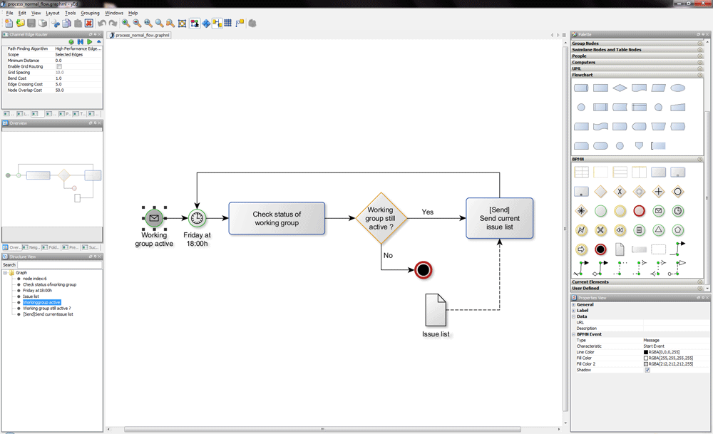 yEd screenshot (on Windows 7) showing a BPMN diagram.